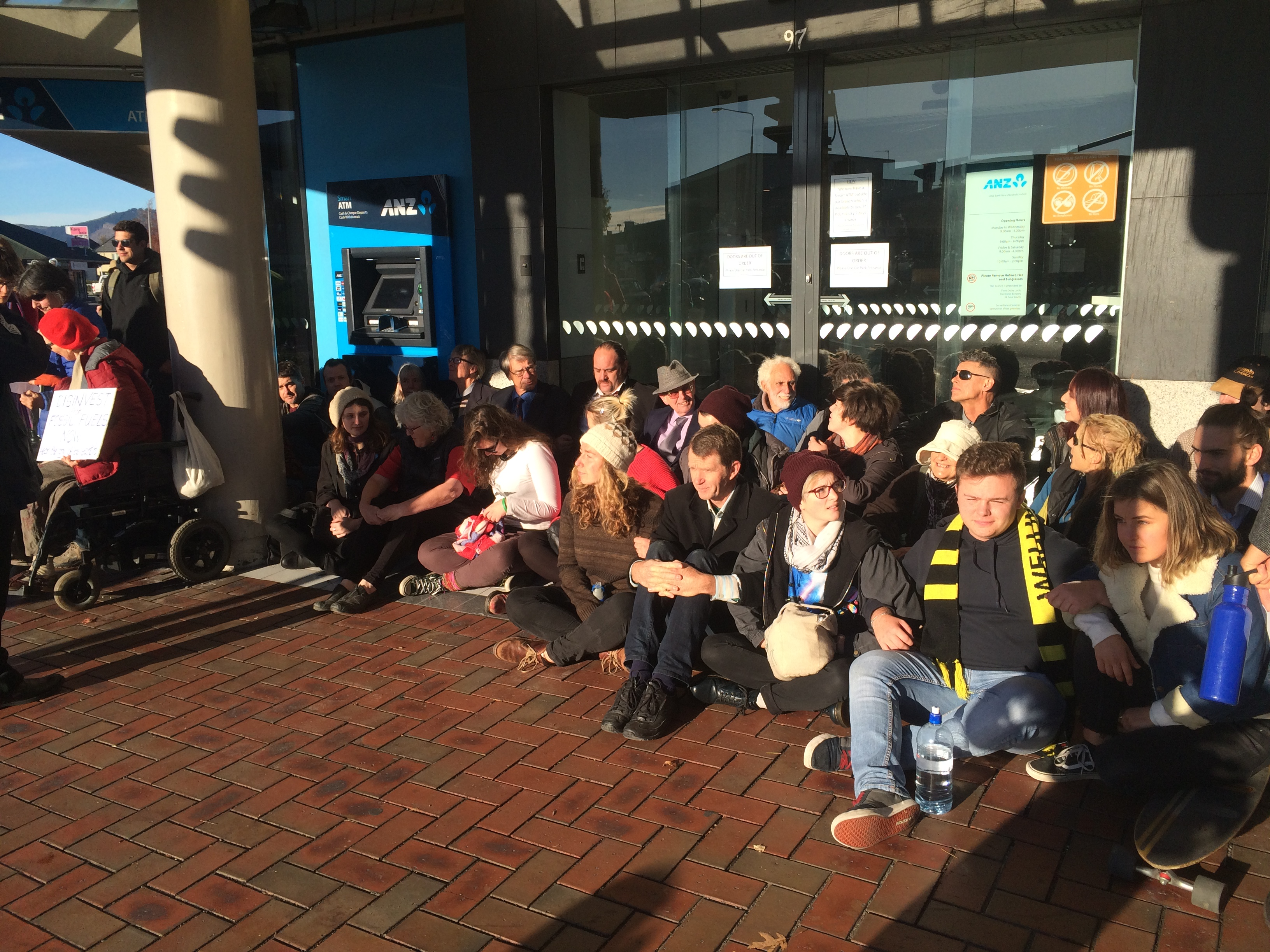 BreakFreeNZ protest at ANZ Riccarton